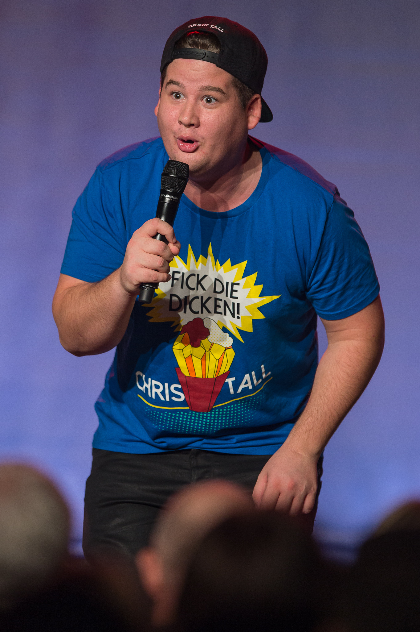 Chris Tall,Christopher Nast,Comedy,Concertbüro Franken,LUX – Junge Kirche Nürnberg,Livecomedy